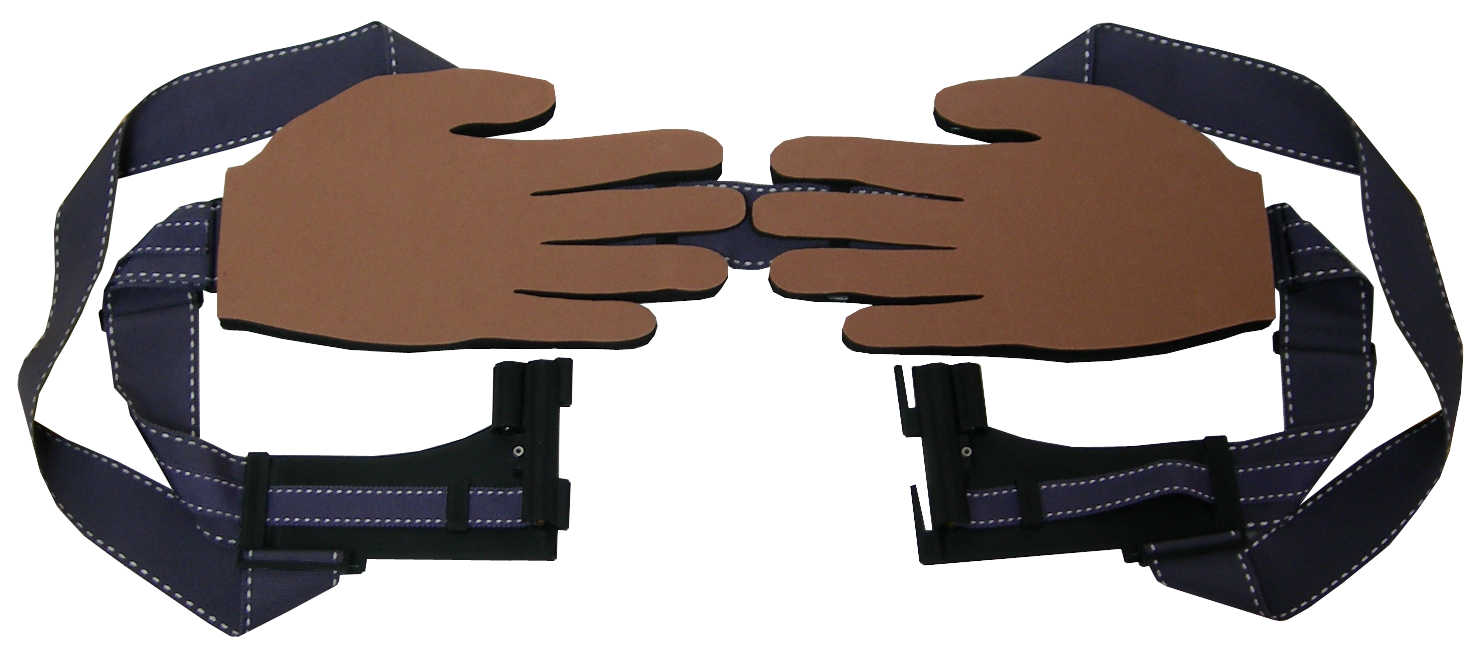 Image of haptic display HaptiHug